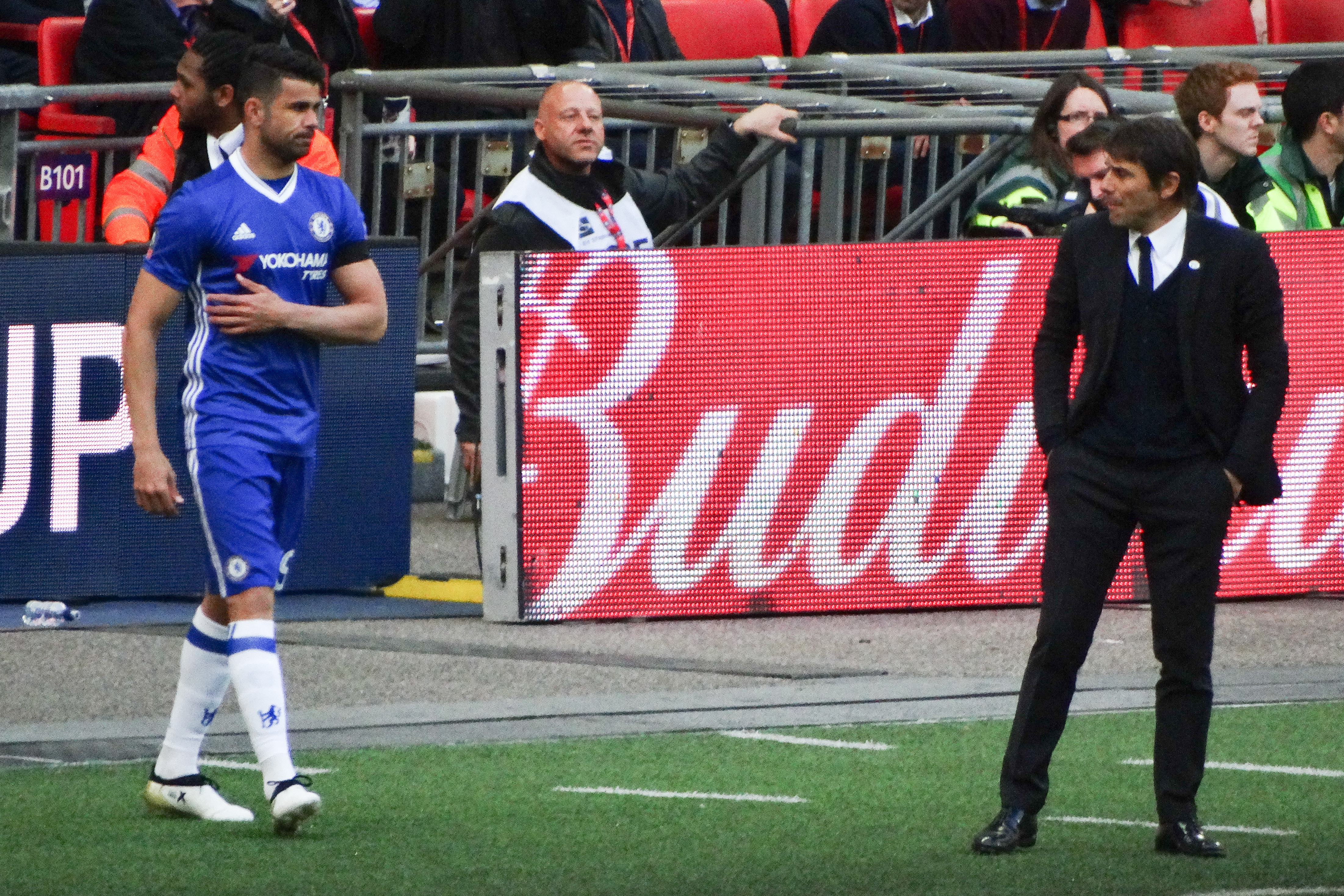 FA Cup SF 22.4.17